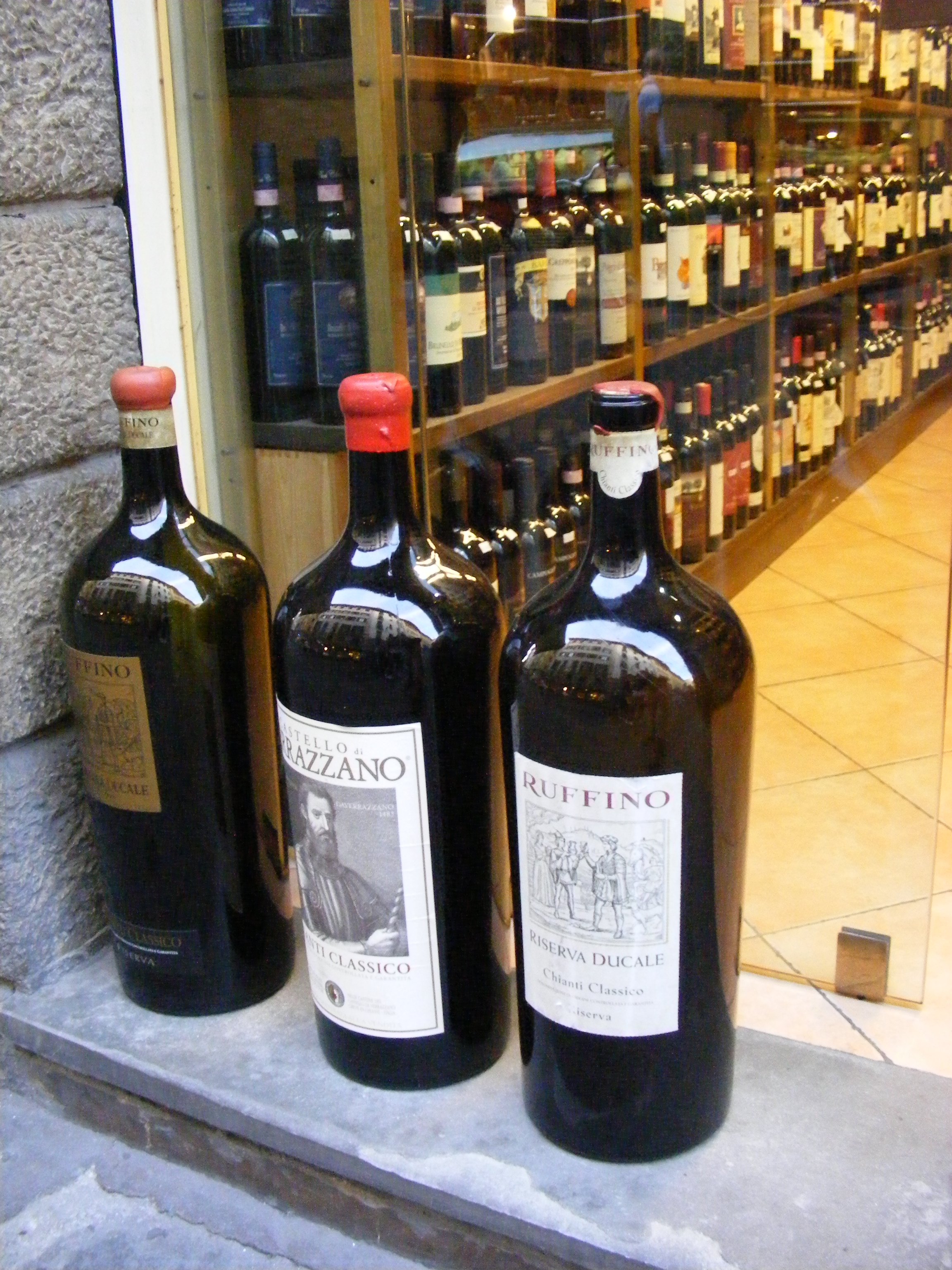 Florence - Large wine bottles in front of a wine shop (DOP Chianti).